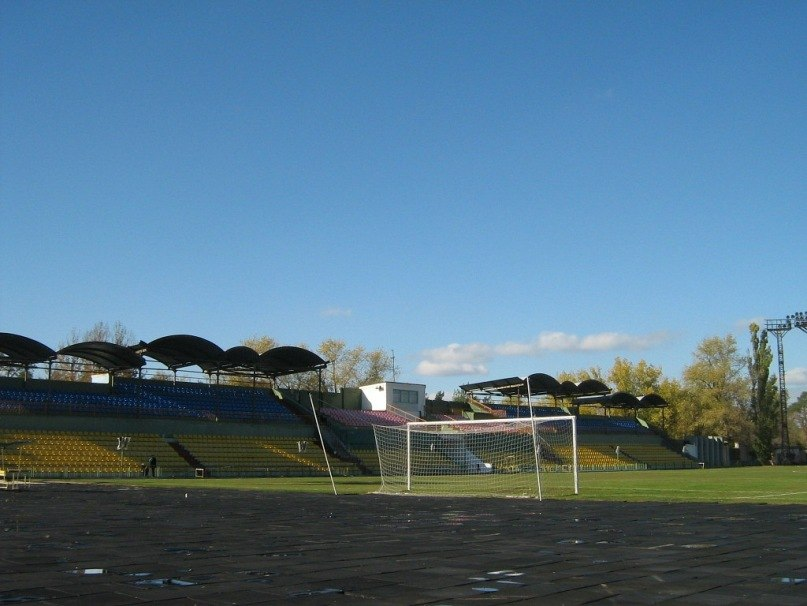 Khimik Stadium in Sievierodonetsk, Luhansk Oblast, Ukraine